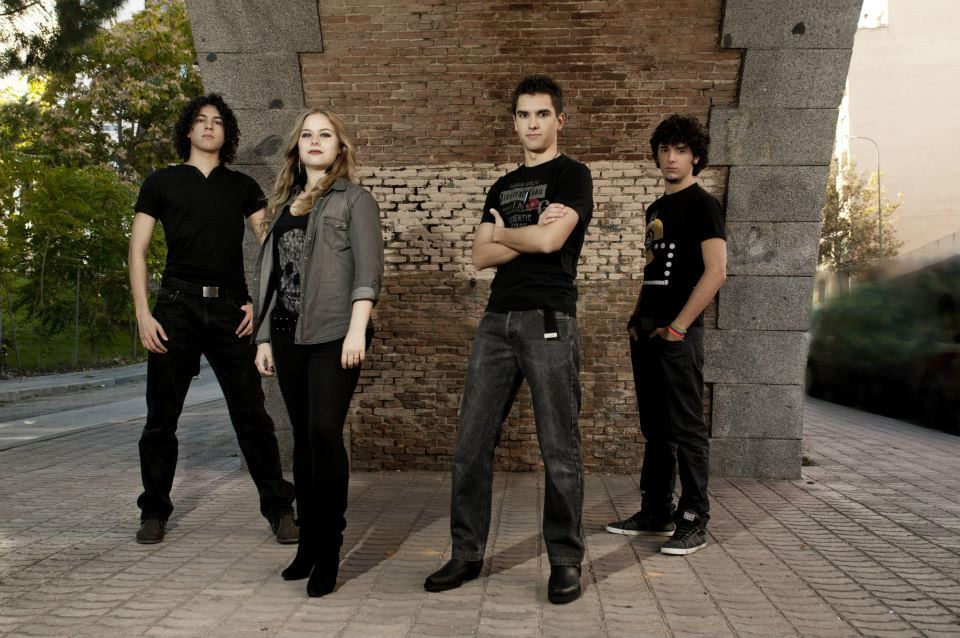 Night Light band photo.